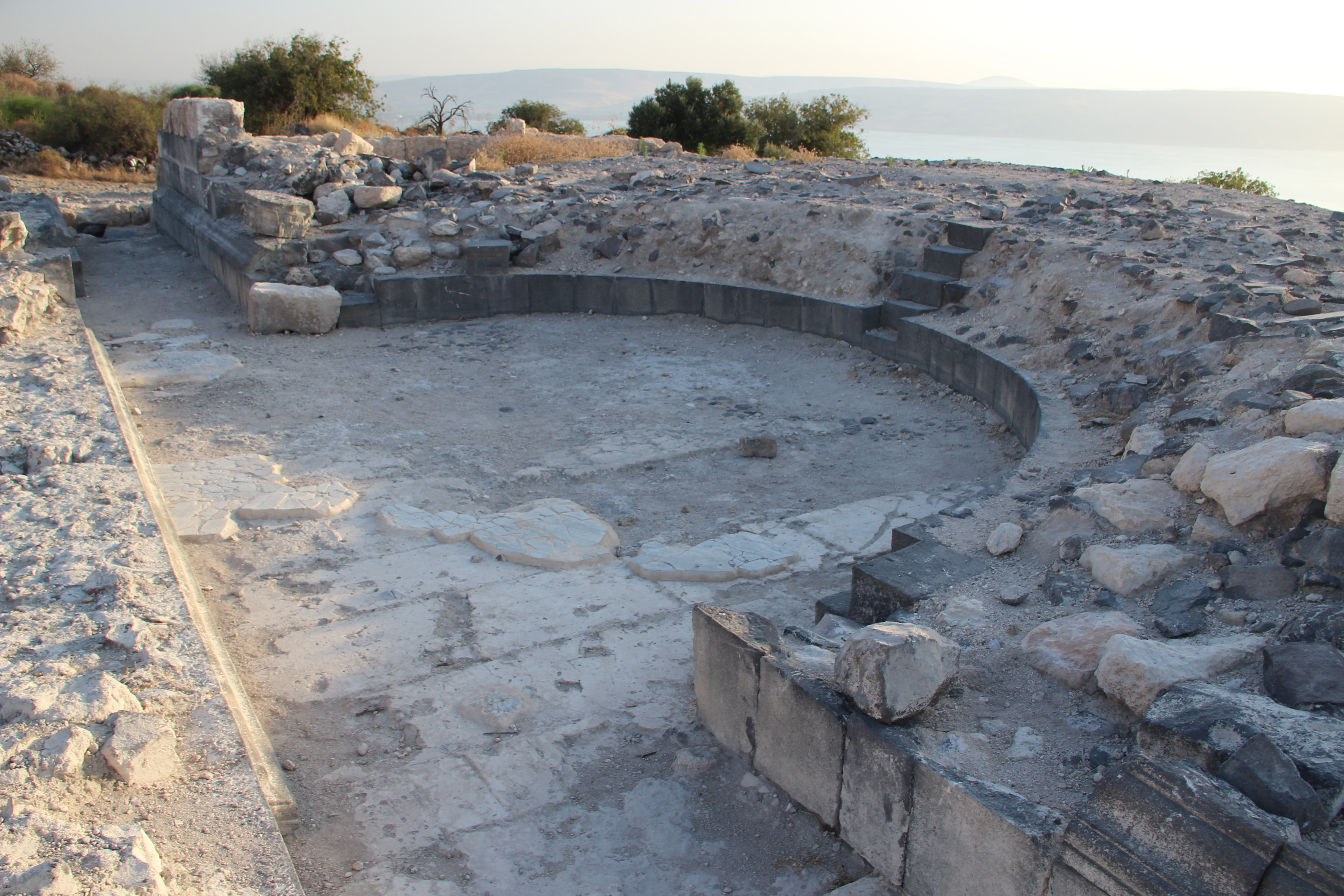 Sussita/Hippos is an archaeological site in Israel, located on a hill overlooking the Sea of Galilee. Between the 3rd century BC and the 7th century AD, Hippos was the site of a Greco-Roman city.